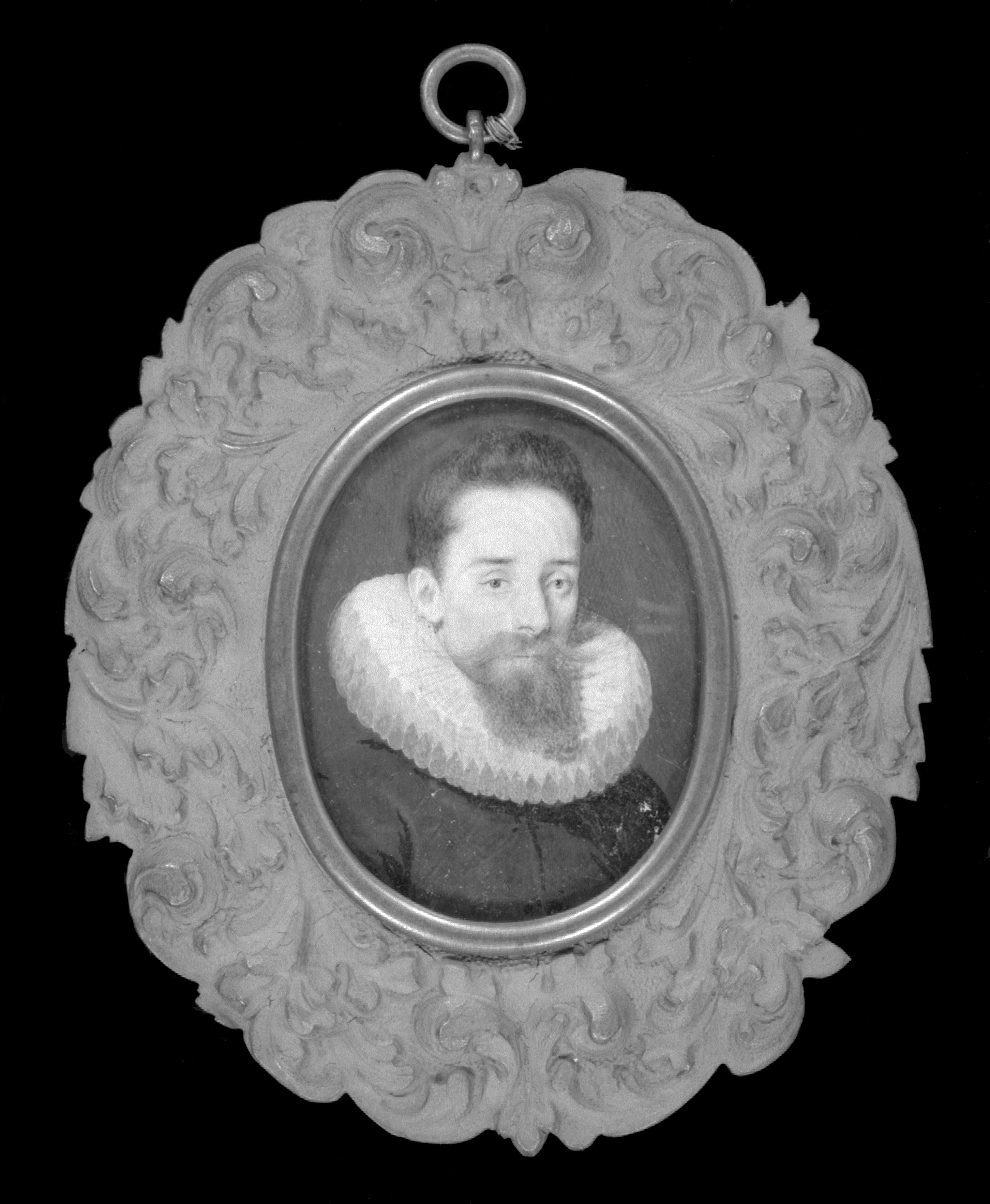 17th Cent. Portrait of Landgrave Georg Christian von Hessen-Homburg